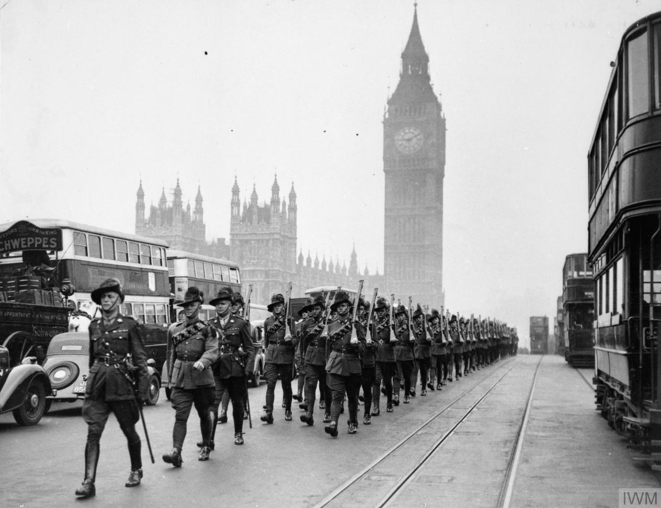 Australian Troops in England, 1940 Troops of the Australian 6th Division, part of the Anzac force diverted to Britain in June 1940, march across Westminster Bridge, London.